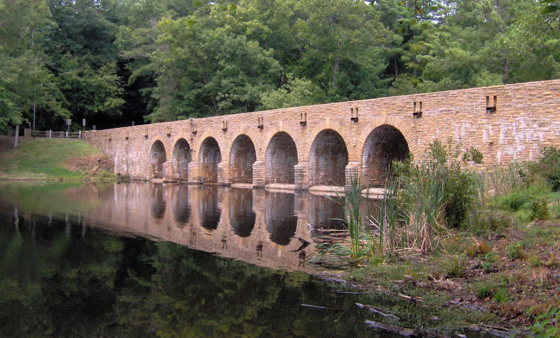 Byrd Creek Dam and bridge and Cumberland Mountain State Park in Cumberland County, Tennessee, in the southeastern United States. The dam is a contributing structure in the NRHP-listed Cumberland Homesteads Historic District.